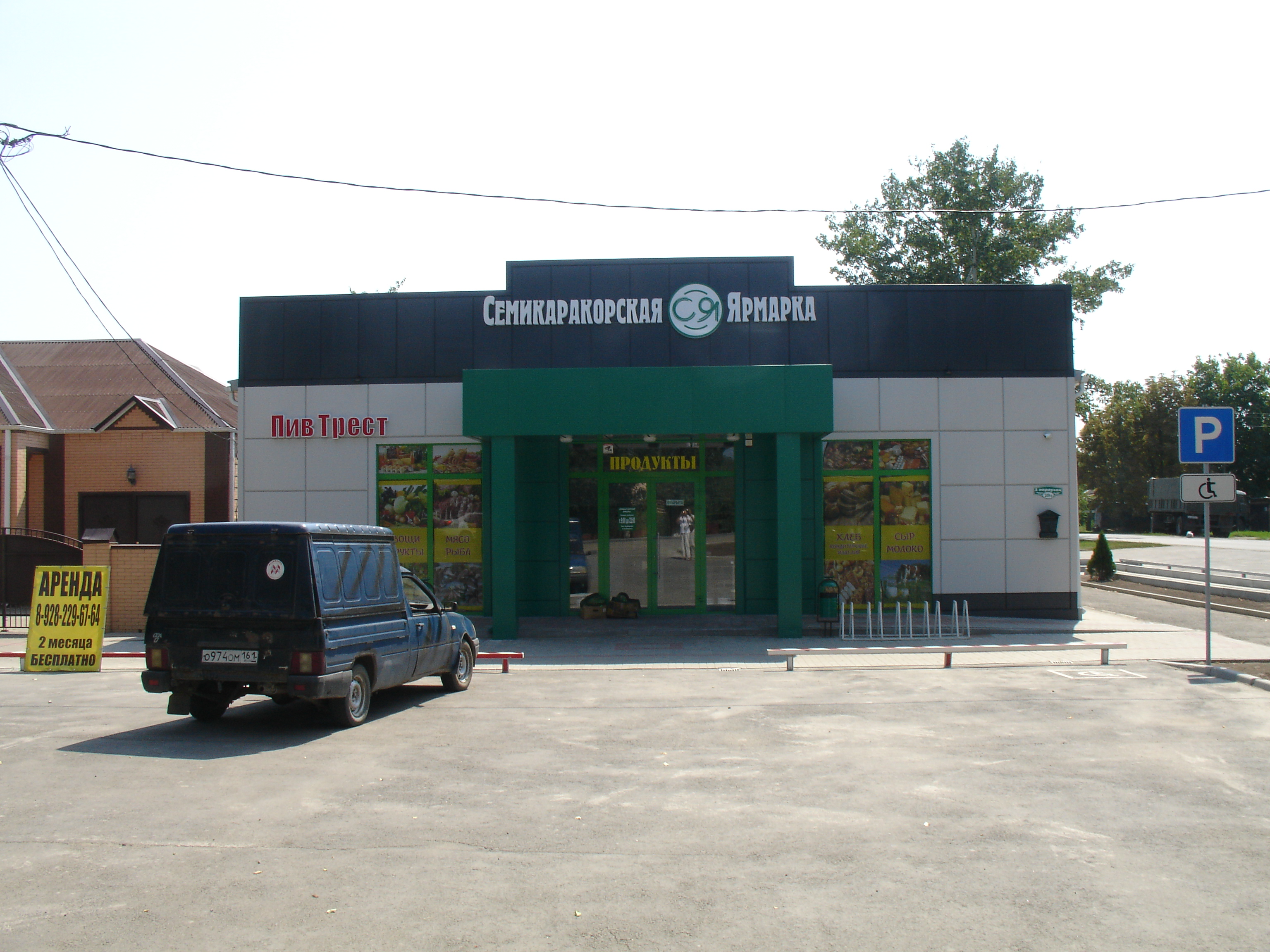 Semikarakorsk fair building. 1-st Lane, Semikarakorsk, Rostov Oblast, Russia.